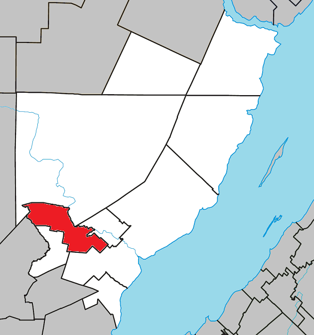 Location of Saint-Aimé-des-Lacs, Quebec within Charlevoix-Est Regional County Municipality.